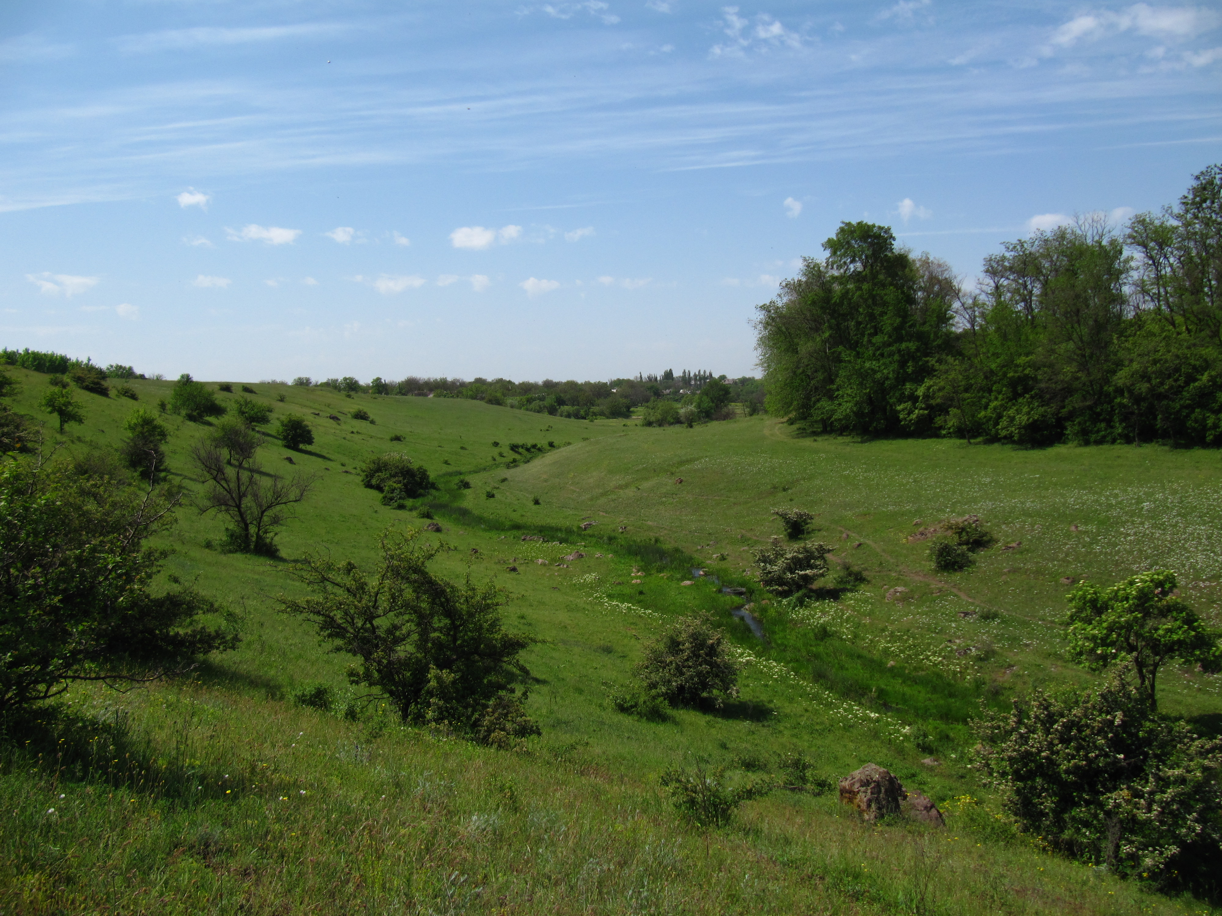 "Chervona balka pivnichna" ukrainian state sanctuary in Kryvyi Rih